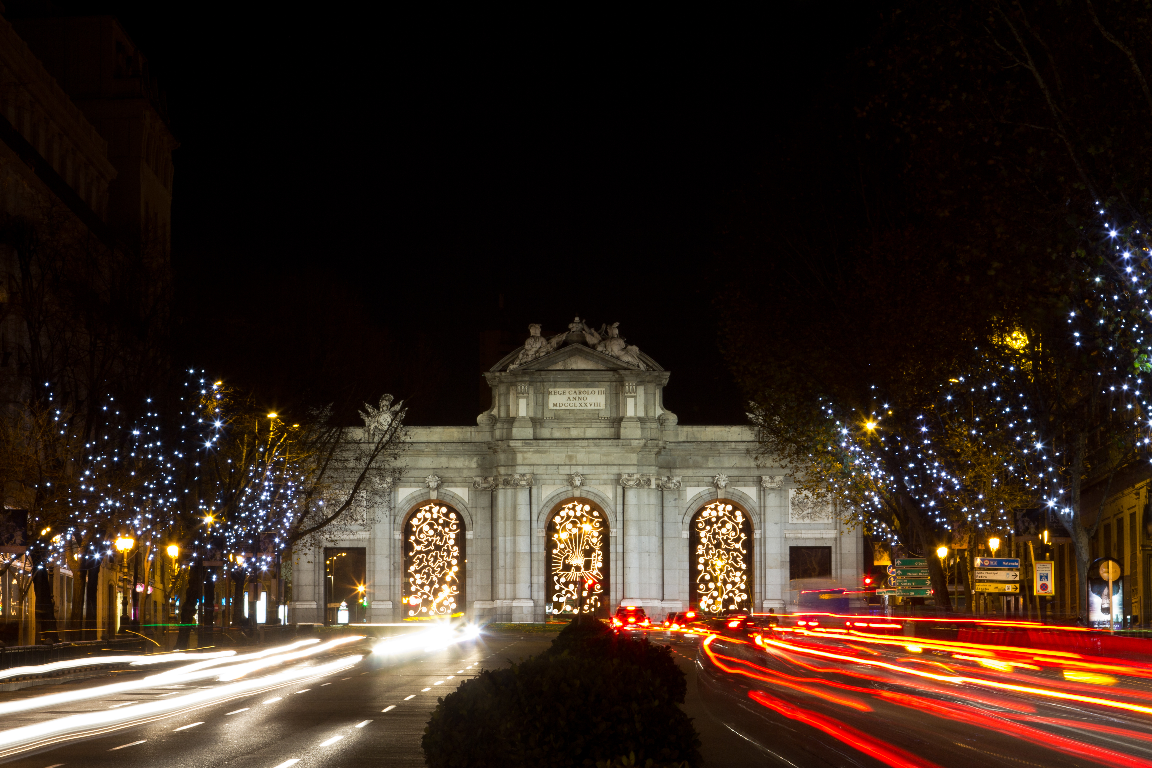 Puerta de Alcalá at night in Christmas time, Madrid, Spain.